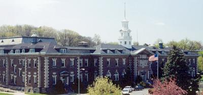 Allentown State Hospital; Main Building